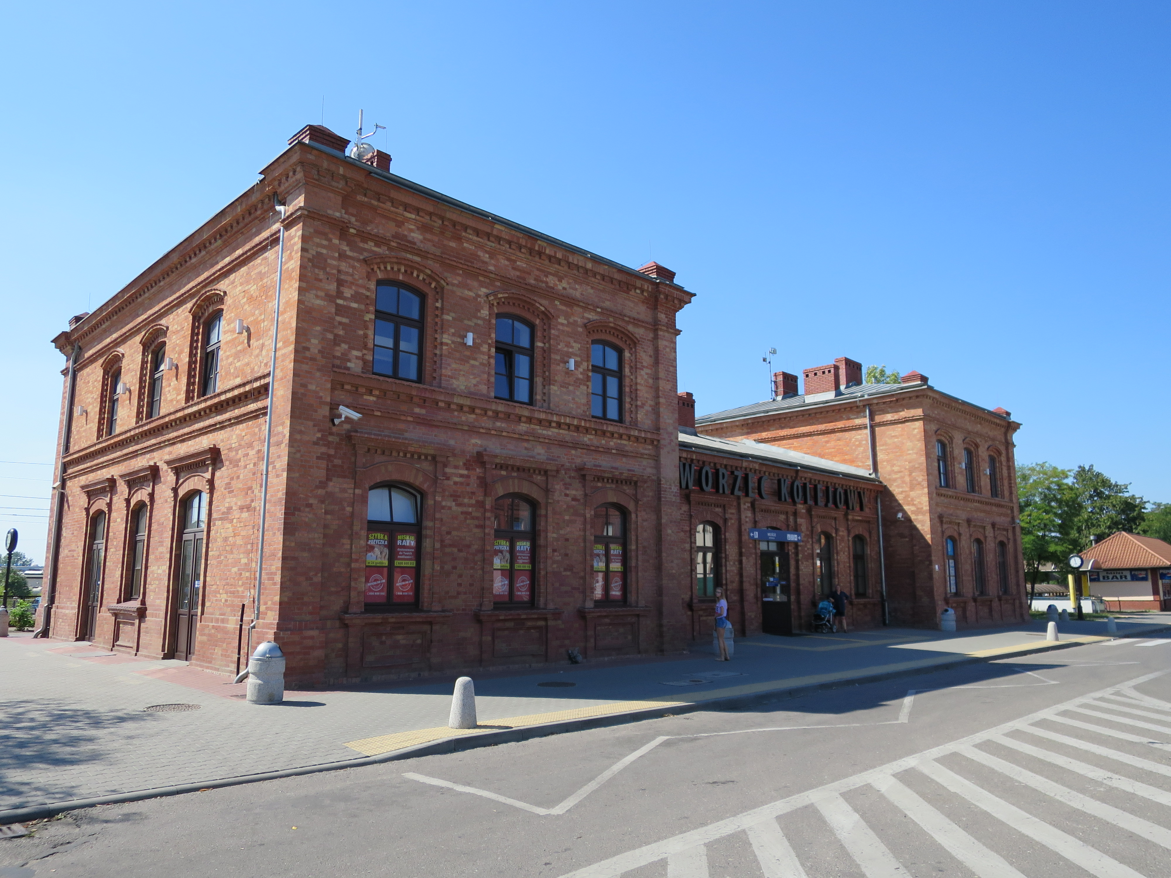 Myszków This photo was taken during Railway Wikiexpedition 2015 set up by Wikimedia Polska Association in cooperation with Fundacja Grupy PKP. You can see all photographs in category Wikiekspedycja kolejowa 2015.